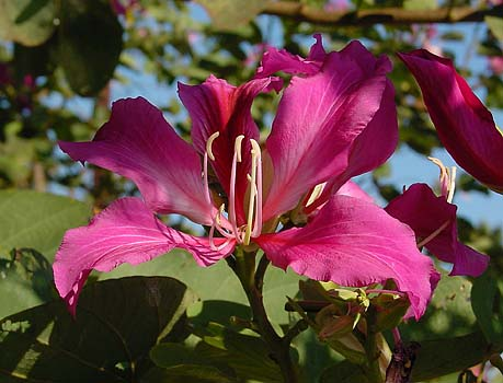 bauhinia (photo Wouter Hagens) category:Images of Hong Kong